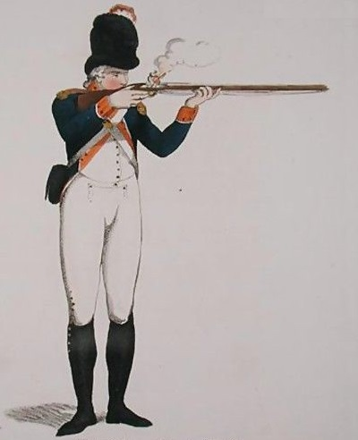 A painting by Thomas Rowlandson of a Volunteer Corps infantryman from Hackney